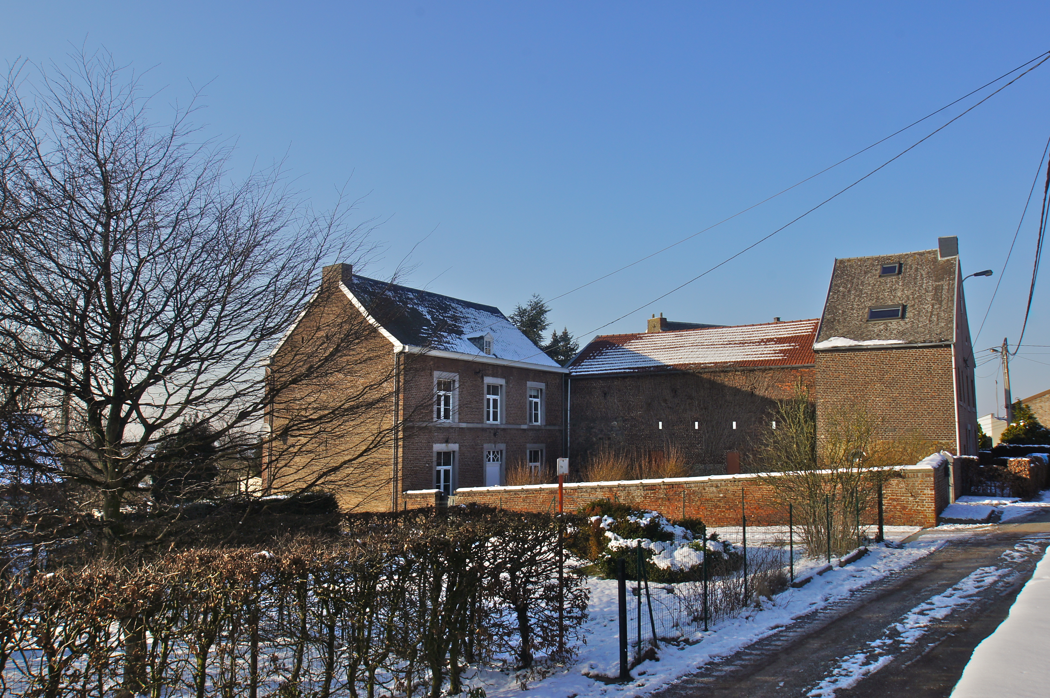 Dalhem (Saint-André (Belgique)), Belgium: Farm